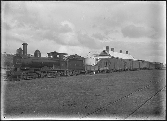 Midland Railway of Western Australia B class locomotive no B6 with a mixed train at Watheroo, Western Australia.